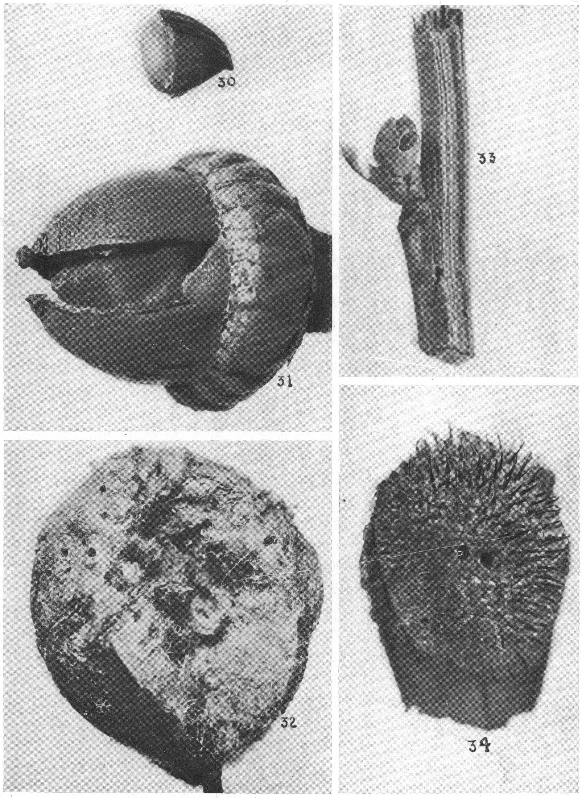 Figs. 30 and 31. Andricus operator form operatola ×4. Fig. 32. Andricus operator form operator ×2. Fig. 33. Andricus fulvicollis form bicolens ×4. Fig. 34. Andricus fulvicollis form erinacei ×4.